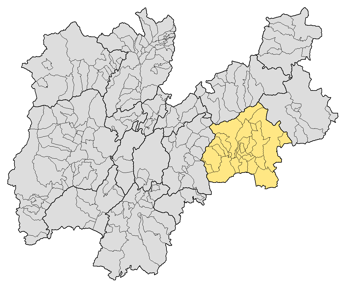 Location map of "Comunità Valsugana e Tesino" (3)